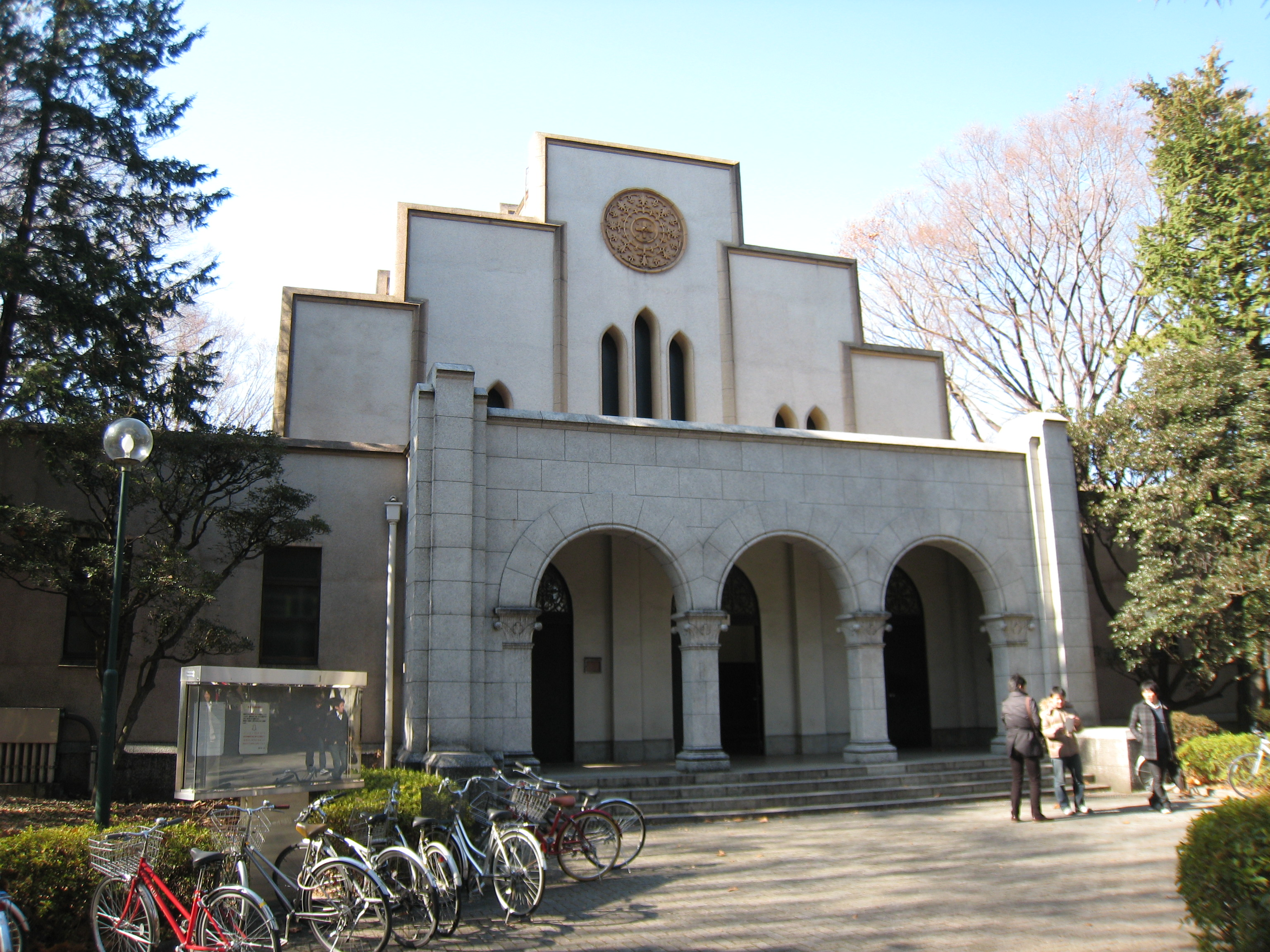 Main auditorium on the Komaba Campus, Tokyo university